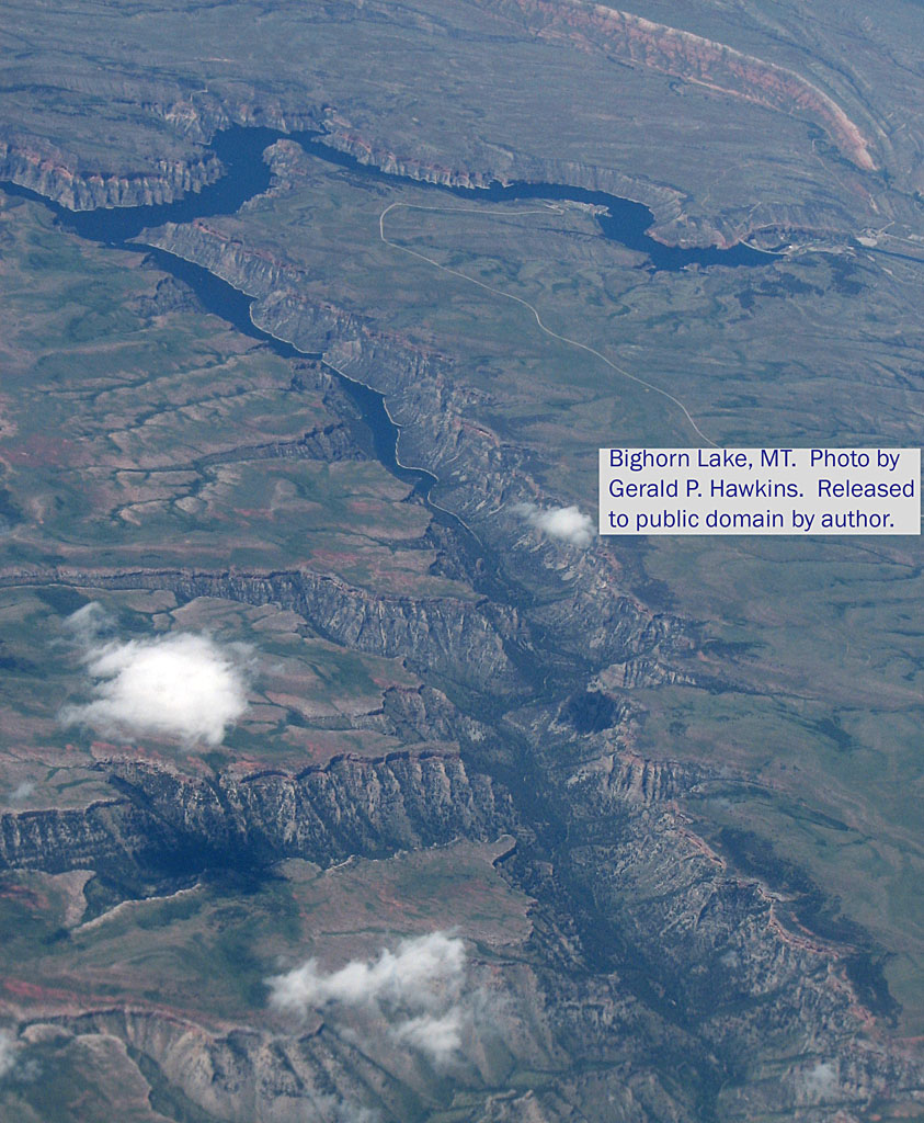 Photo of the eastern portion of Bighorn Lake, MT (& Wyoming). Taken from an aircraft at approximately 40000 feet.